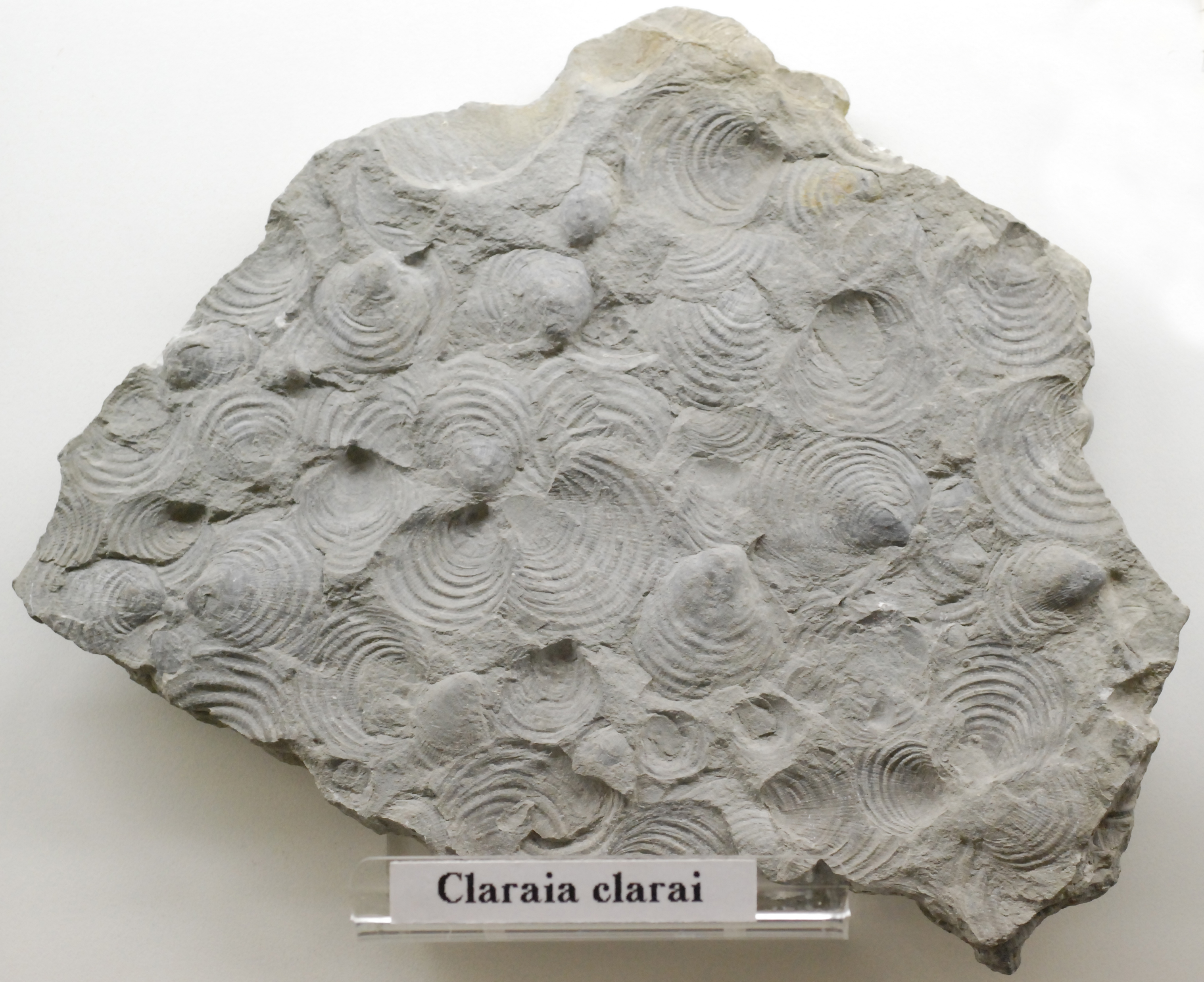 The fossil Claraia clarai from the Werfen Formation in the Dolomites - Museum Gröden